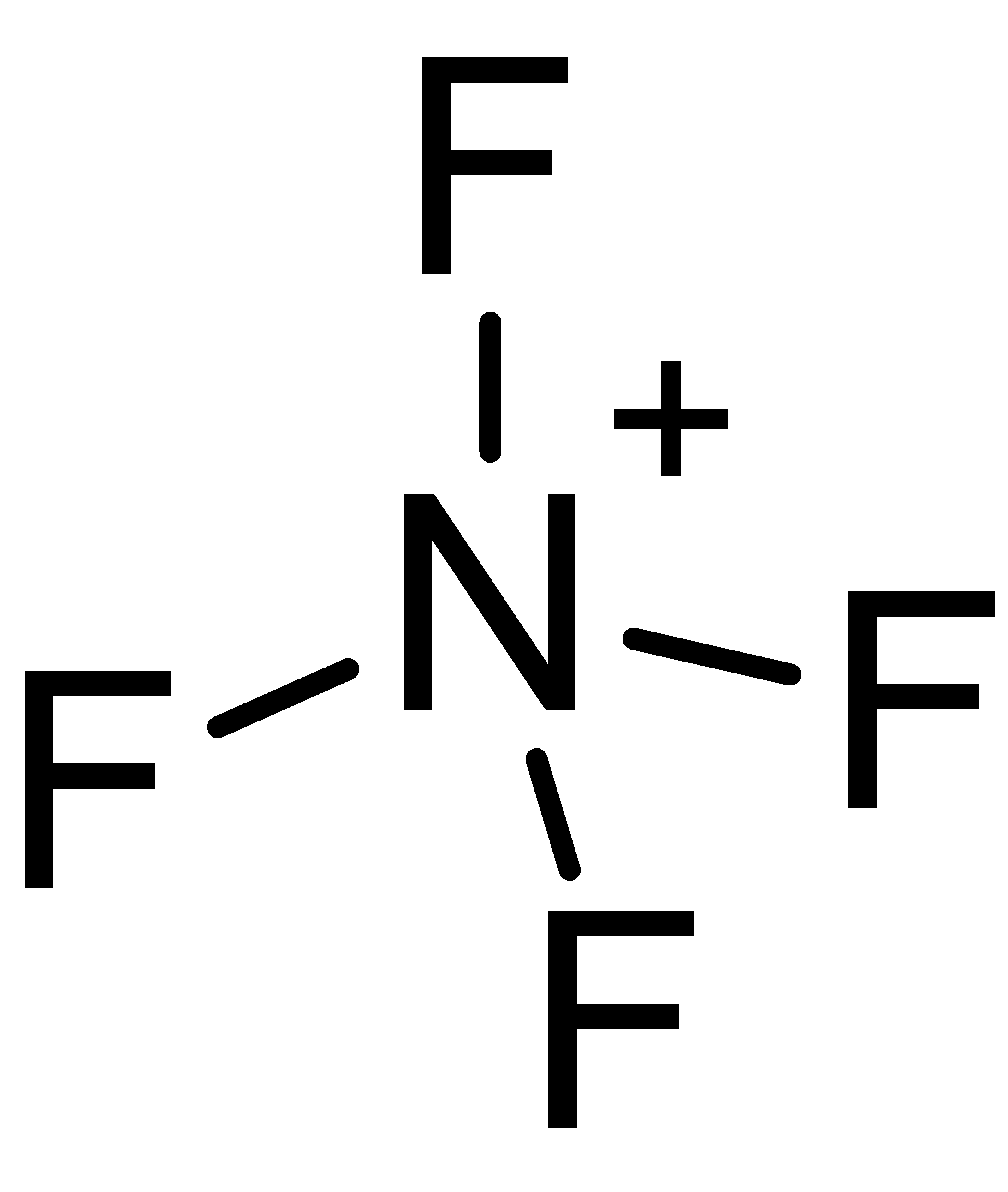 2D model of the Tetrafluoroammonium ion.